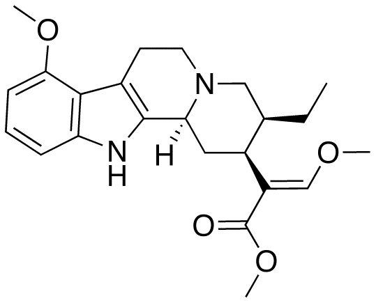 Structural formula image of Mitragynine